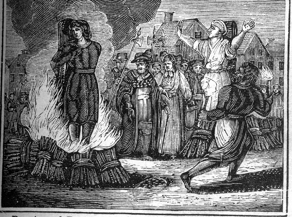 a woodcut illustrating an execution by burning at the stake. original caption: "Burning at the stake. An illustration from an mid 19th century book."